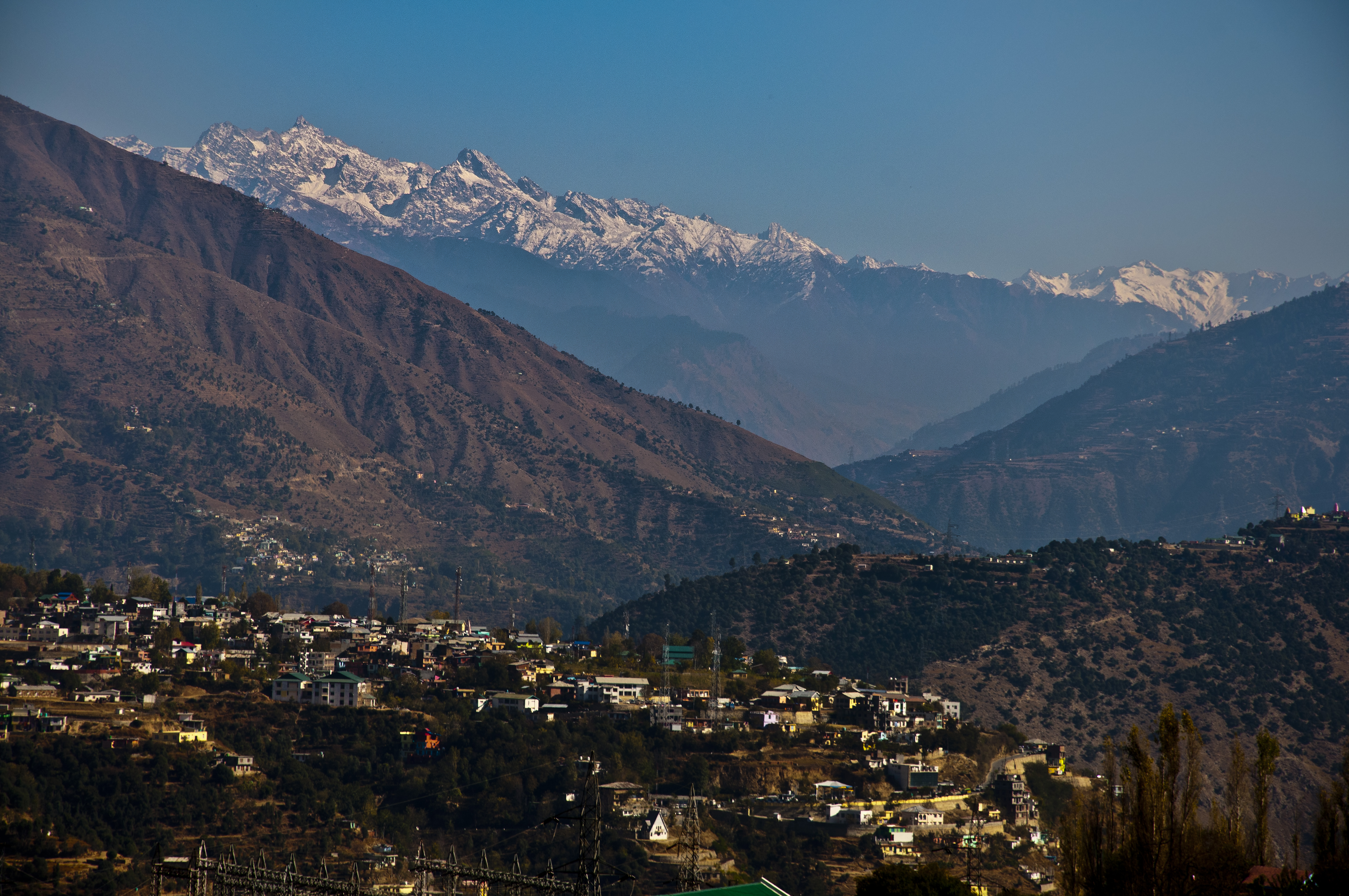 Picture of Doda city with snowclad mmounts in the backdrop clicked from Thathri, Jammu